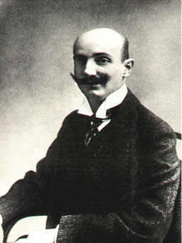 Image of Vasily Vitalyevich Shulgin (1878 - 1976), Russian politician